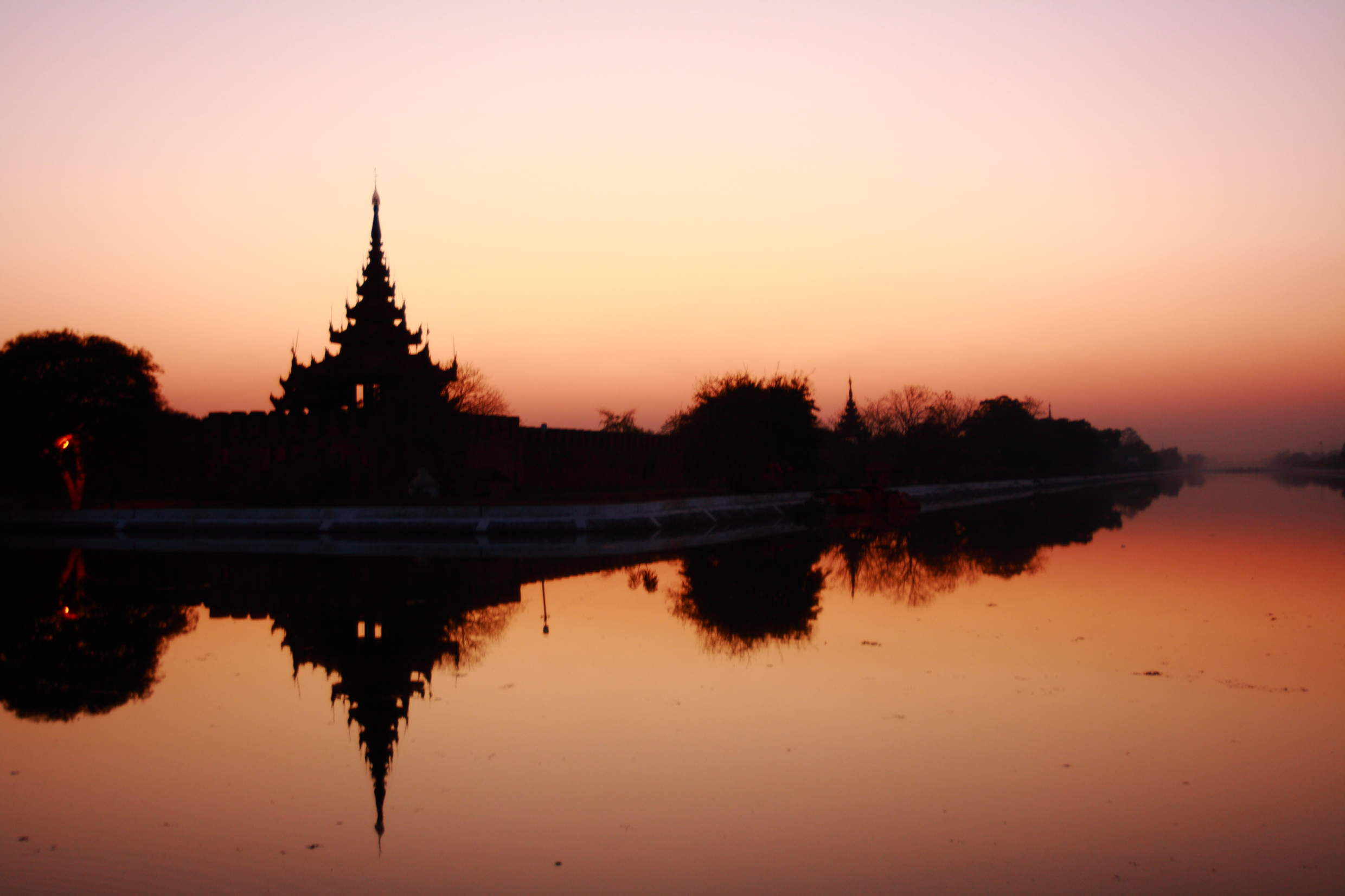 Sunset over the royal palace of Mandalay, Myanmar